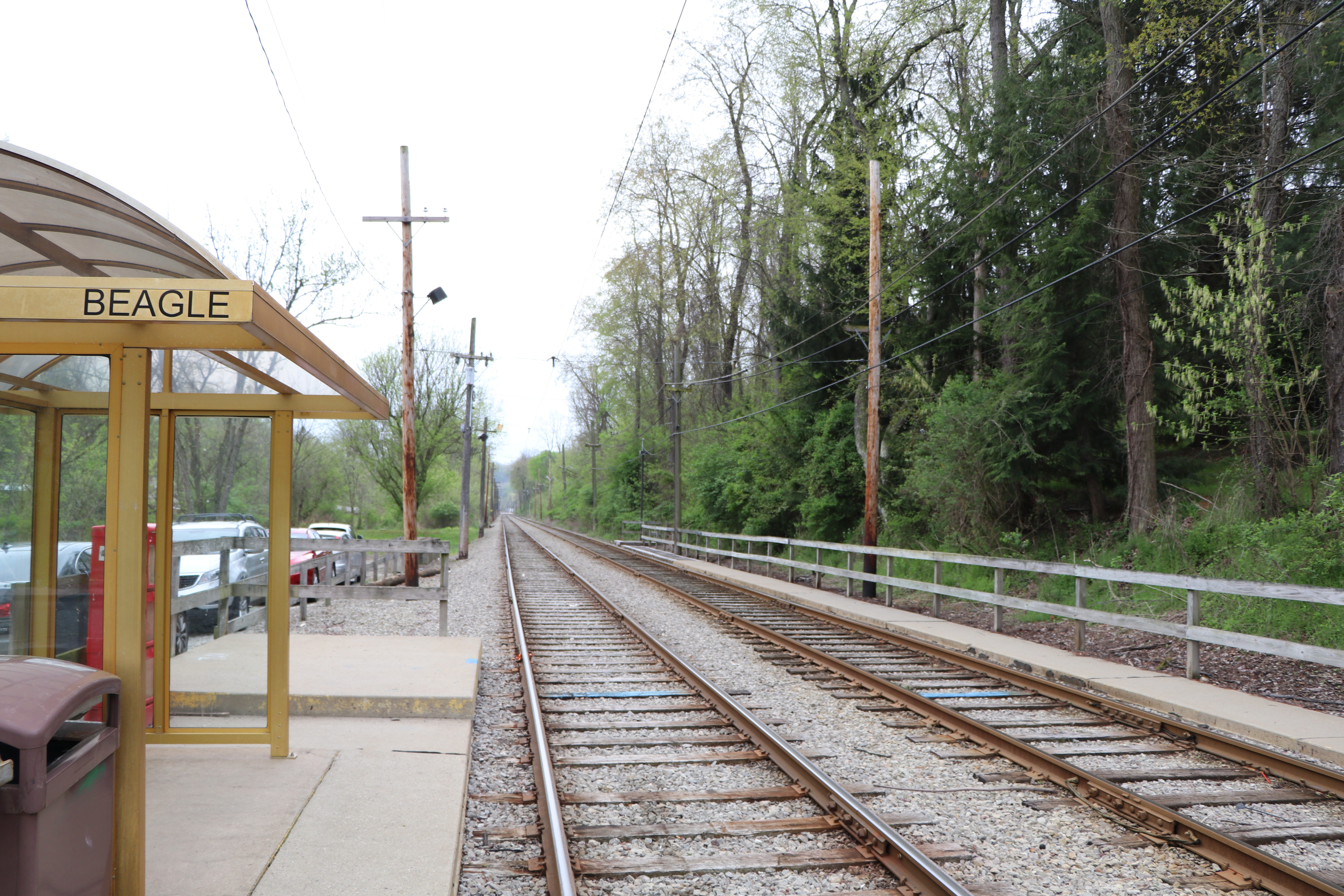 Beagle station on the Blue Line, Bethel Park, PA. View looking south, with the inbound platform on the left.